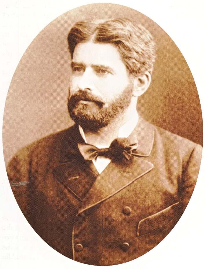 József Hampel